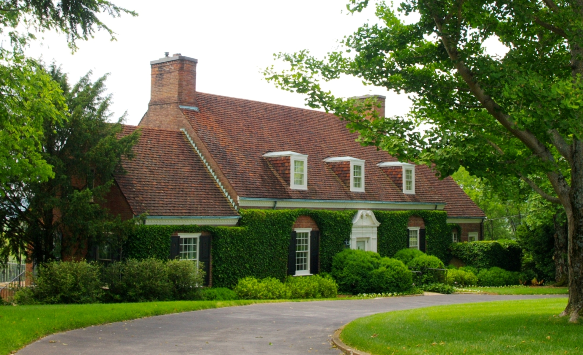 The Hal Mebane, Jr., House on Lyons View Pike in Knoxville, Tennessee, USA. This house was built in 1931, and designed by the architectural firm Barber and McMurry. Hal Mebane, Jr., was an executive with Standard Knitting Mills.